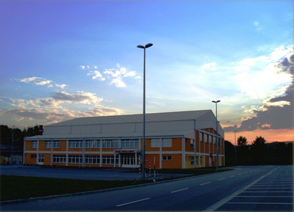 New sports hall built near the Primary school.